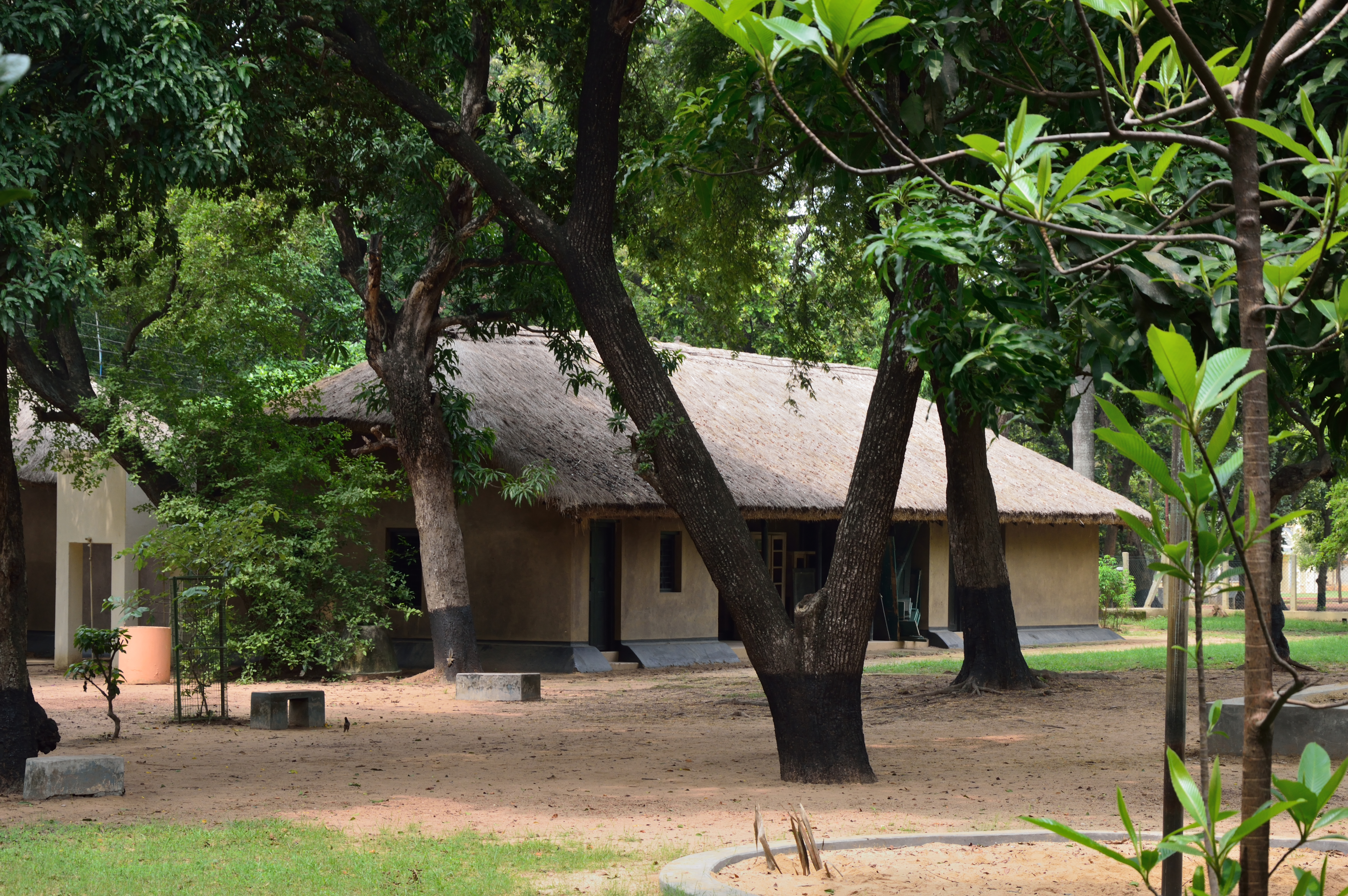 Natun-Bari, built in 1902 by the Poet for his family, this simple thatched cottage was offered to Mahatma Gandhi's Phoenix school boys in 1915. Mrinalinidevi, the Poet's wife died before the house was completed but her name lives on in the nursery school named after her - Mrinalini Ananda Pathsala which is housed here.Photographed at the Visva-Bharati, Santiniketan.